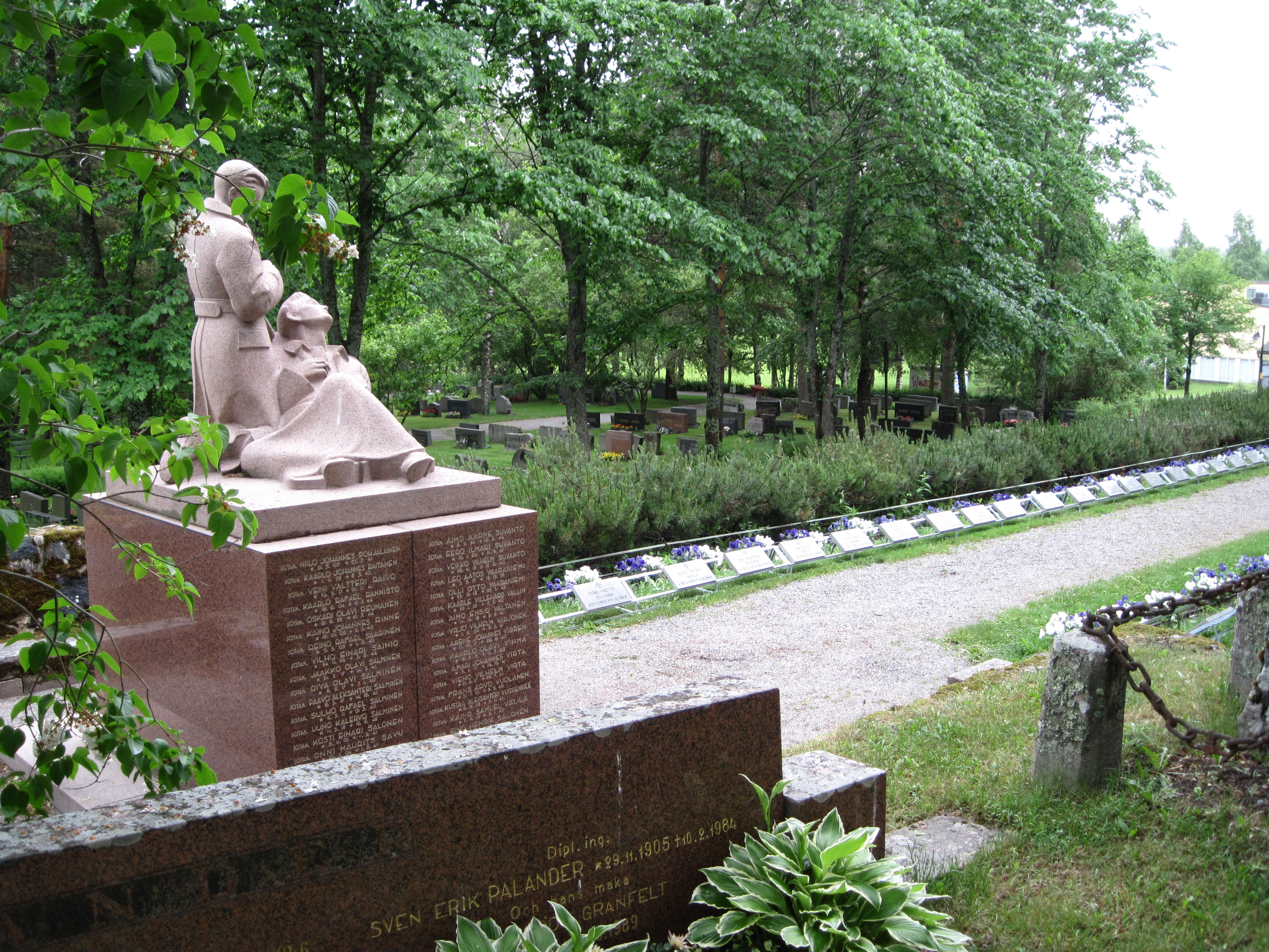 Military cemetary at Church in Mynämäki, Finland